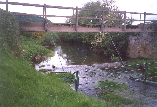 Sea Cut Weir , Suffield cum Everley. This is the point where water in the River Derwent divides between the river downstream and the Sea Cut to Scalby. The flow into the river is controlled by a penstock, and there is a weir across the entry to the Sea Cut to ensure that there is a dry-weather flow in the river.